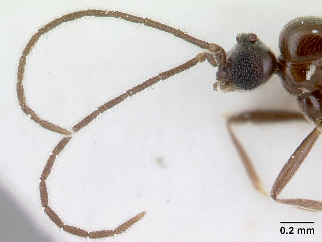 Head view of ant Yavnella argamani specimen casent0178519.